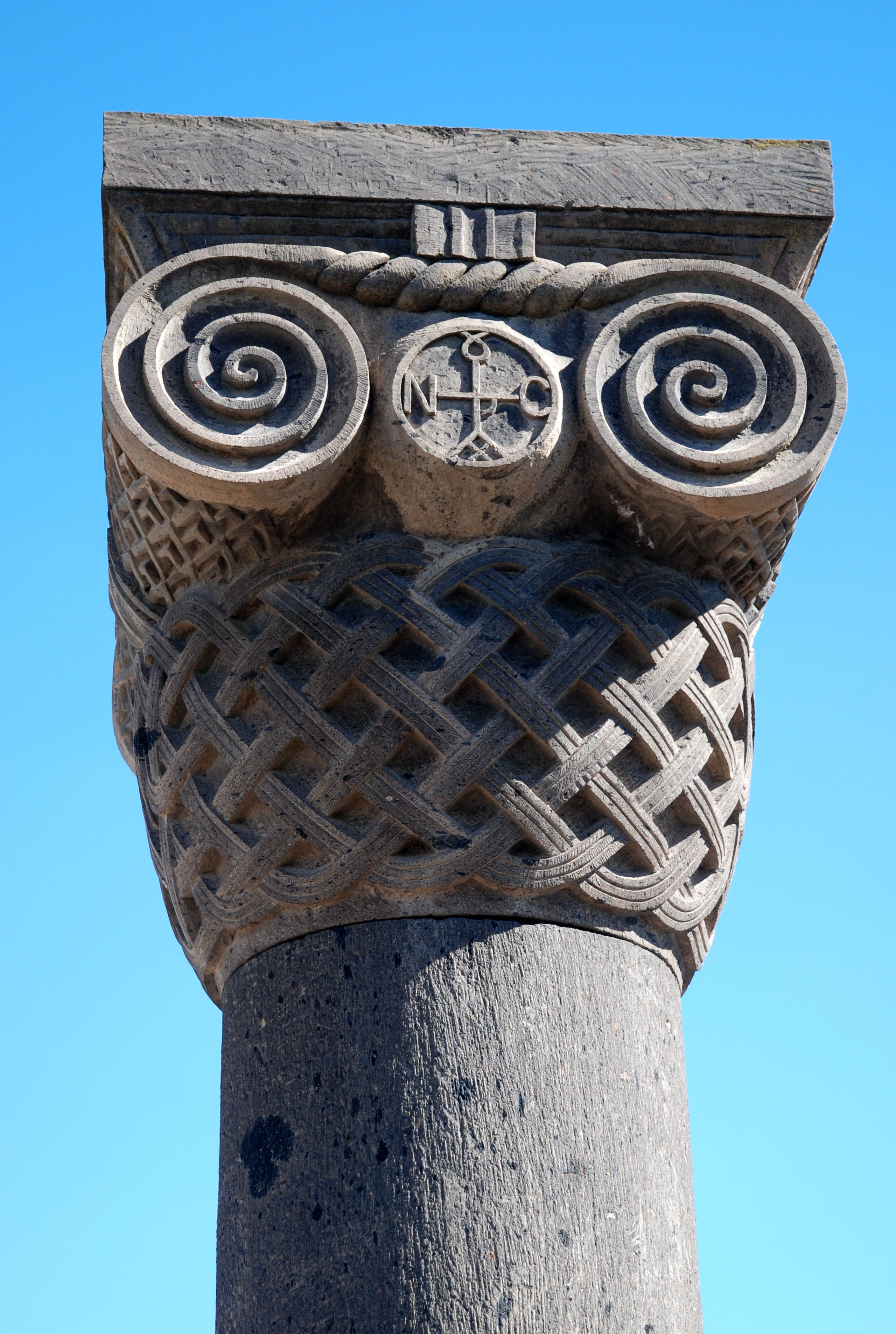 Zvartnots, capital exedra